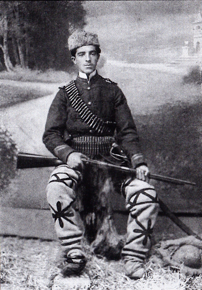 bulgarian revolutionary